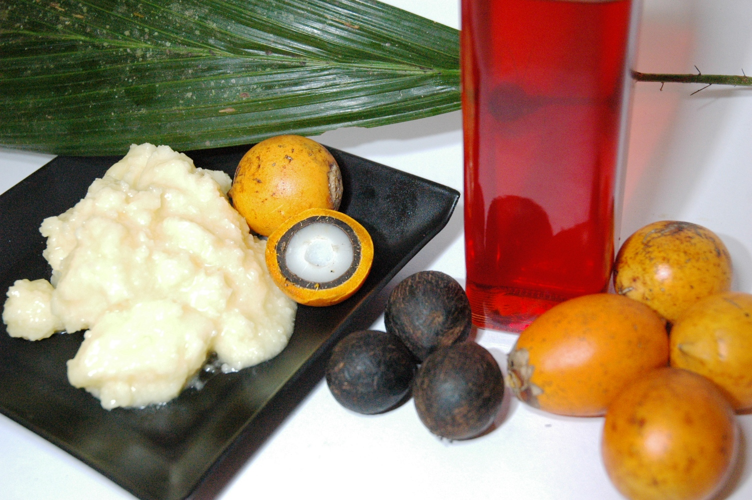 Butter from the seed of the Tucumã fruit and the oil from the pulp